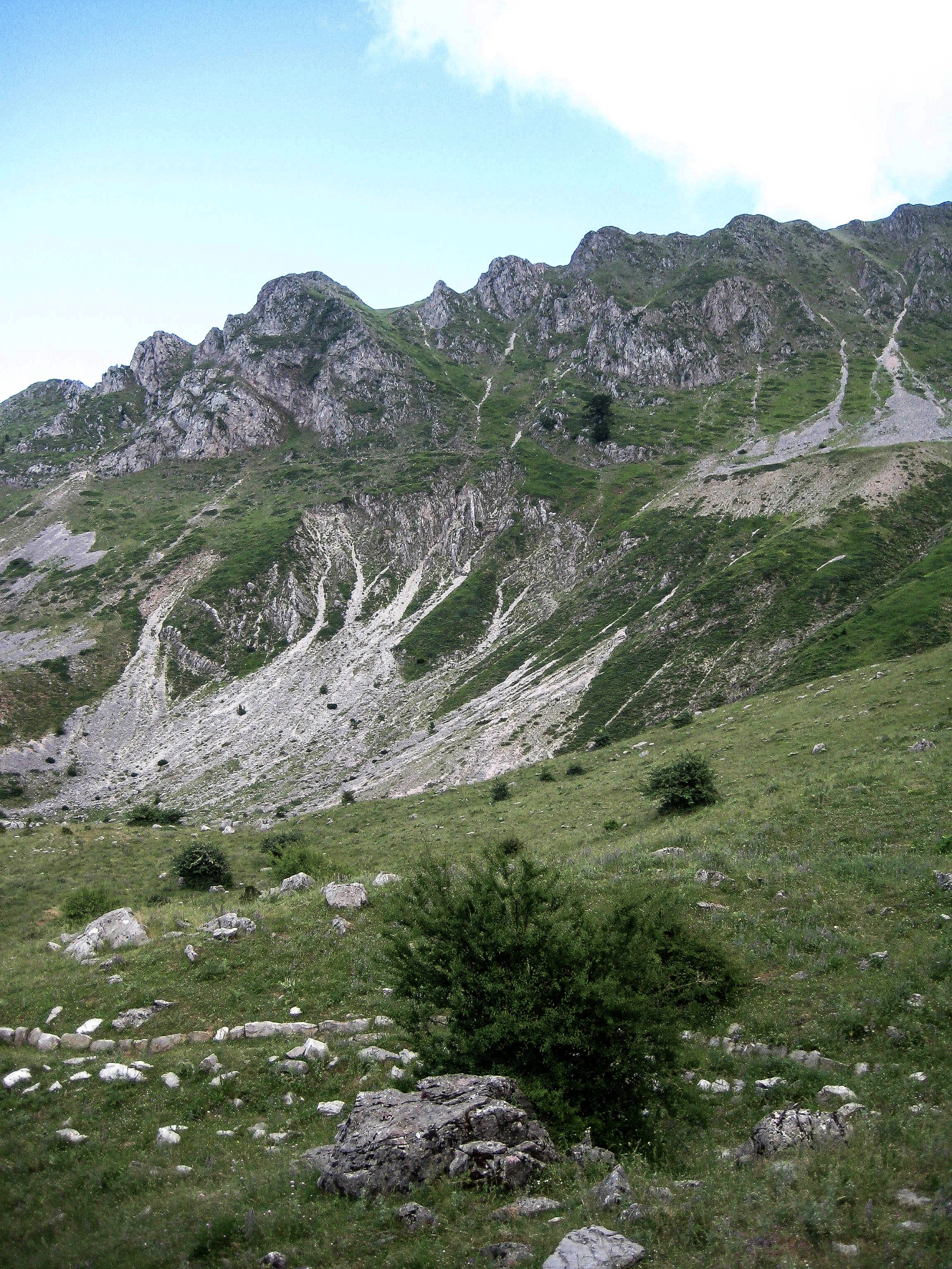 This is a photography of Natura 2000 protected area with ID GR1410002